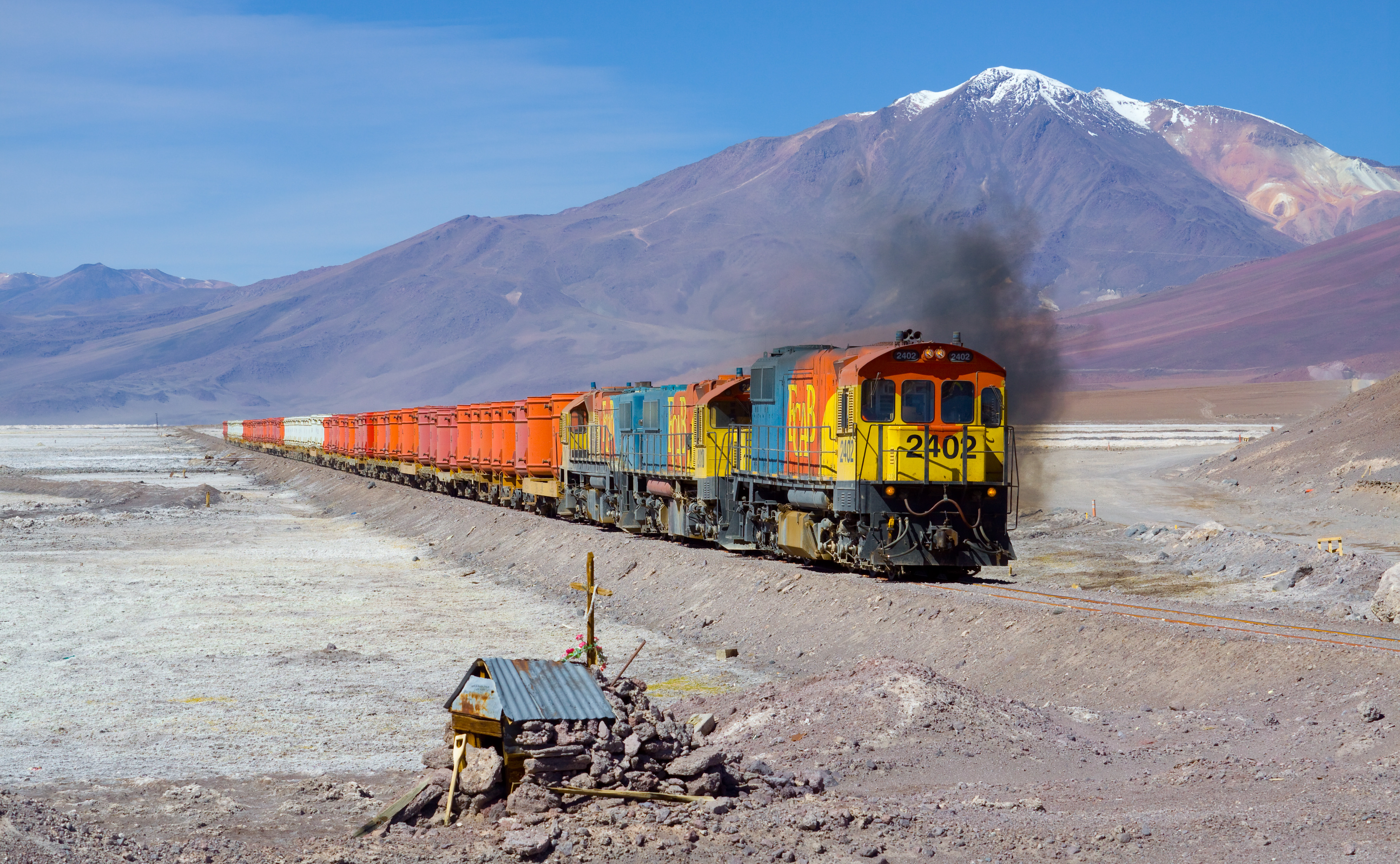 Three FCAB engines with a "bucket train" crossing the Salar de Ascotan (salt lake Ascotan) on their journey from Calama to Ollagüe (at the Bolivian border), Chile. The buckets are probably empty; they are used to transport ore from Bolivia to the ports of Chile. The engines are EMD GR12 2402, EMD/Clyde GL26C-2 2010 and EMD/Clyde GL26C-2 2005. In the background you can see the 5846 m high stratovolcano "Cerro del Azufre".